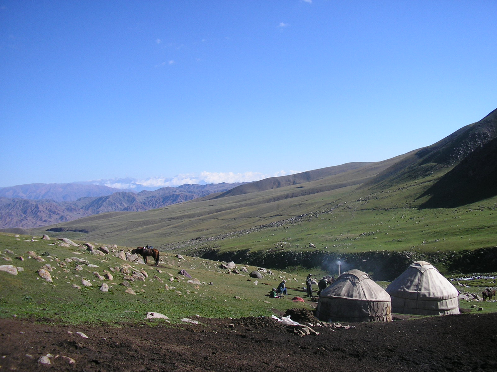 kirghiz yurts